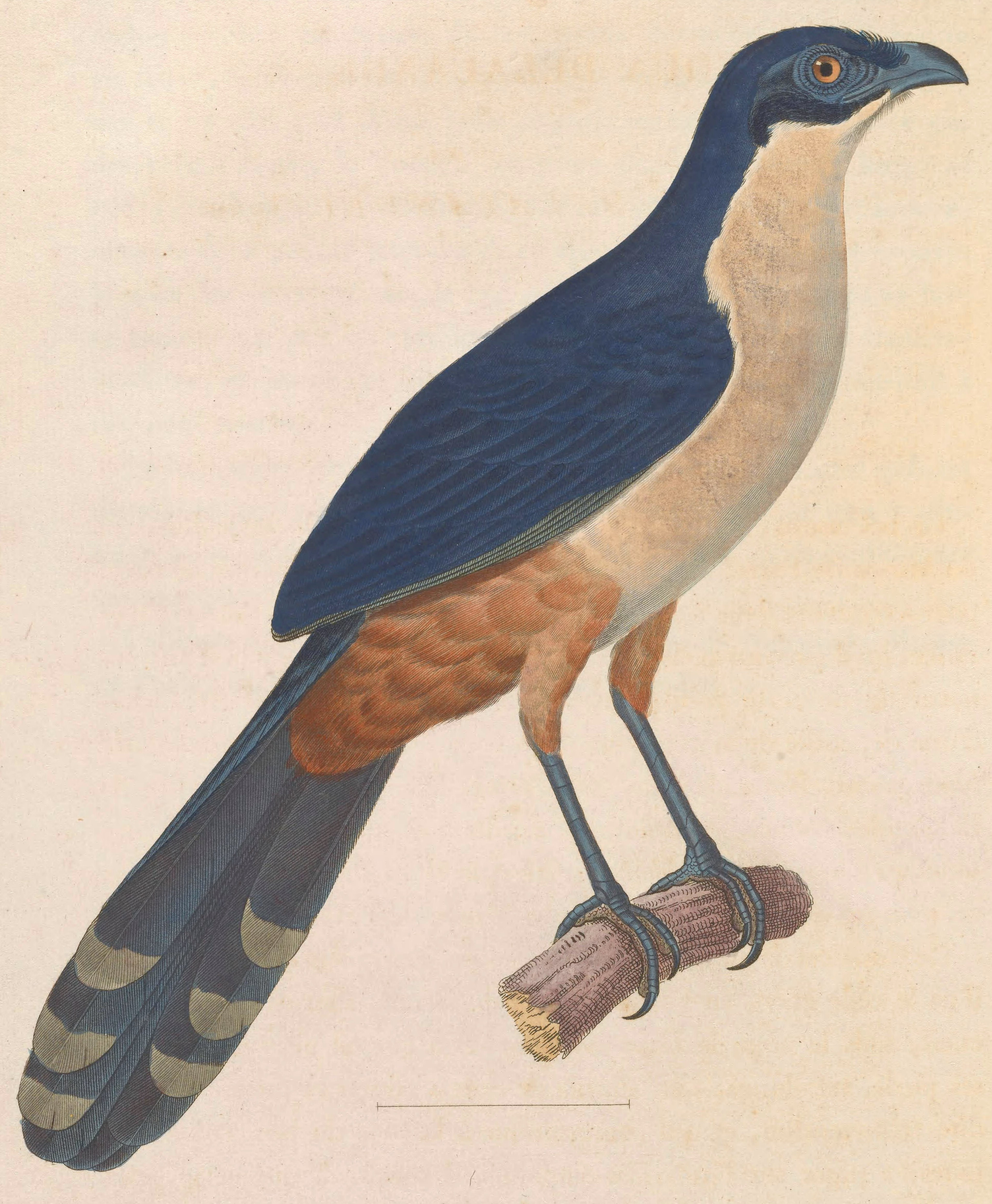 « Coccycus delalandei » = Coua delalandei (Delalande's Coua) - adult